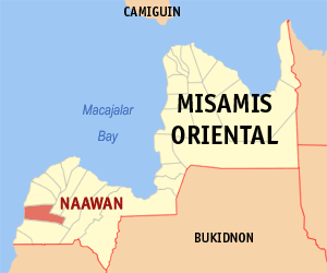 Map of the Misamis Oriental showing the location of Naawan